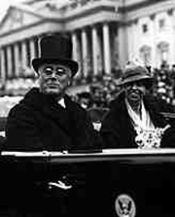 Franklin Delano Roosevelt 1933 presidential inauguration